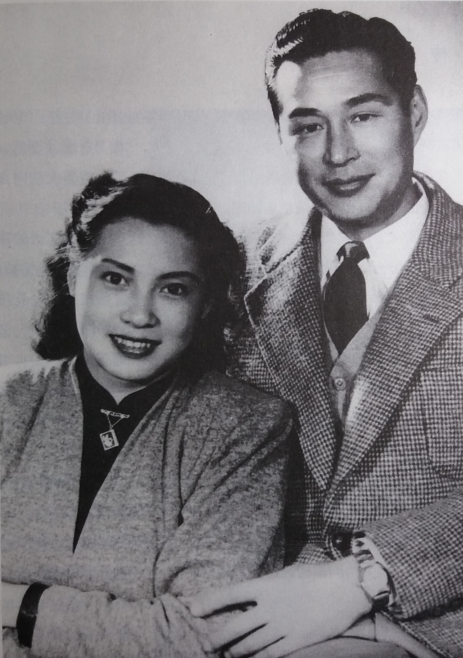 Actor Jin Yan and his wife actress Qin Yi